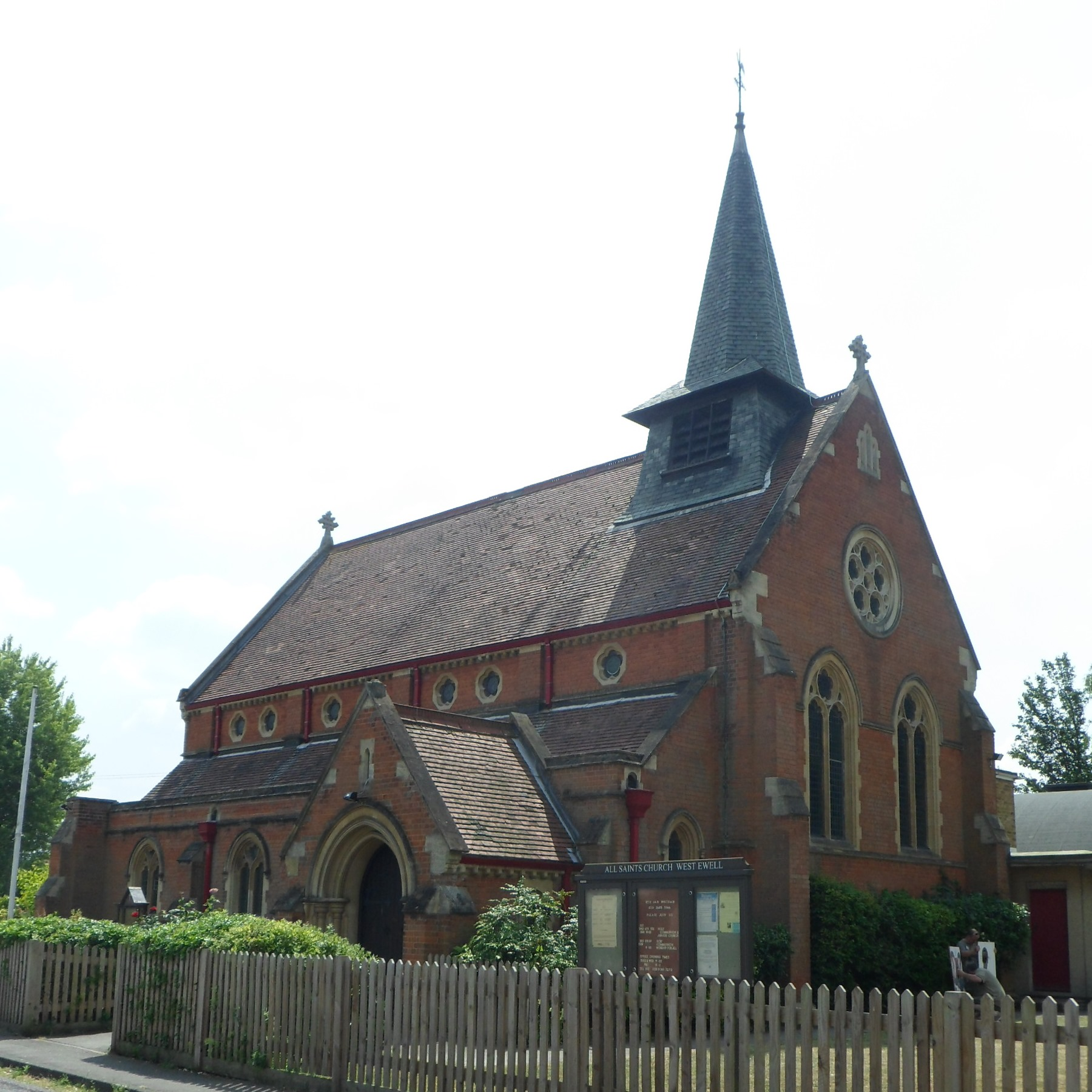 All Saints Church, Church Road, West Ewell, Epsom and Ewell Borough, Surrey, England.